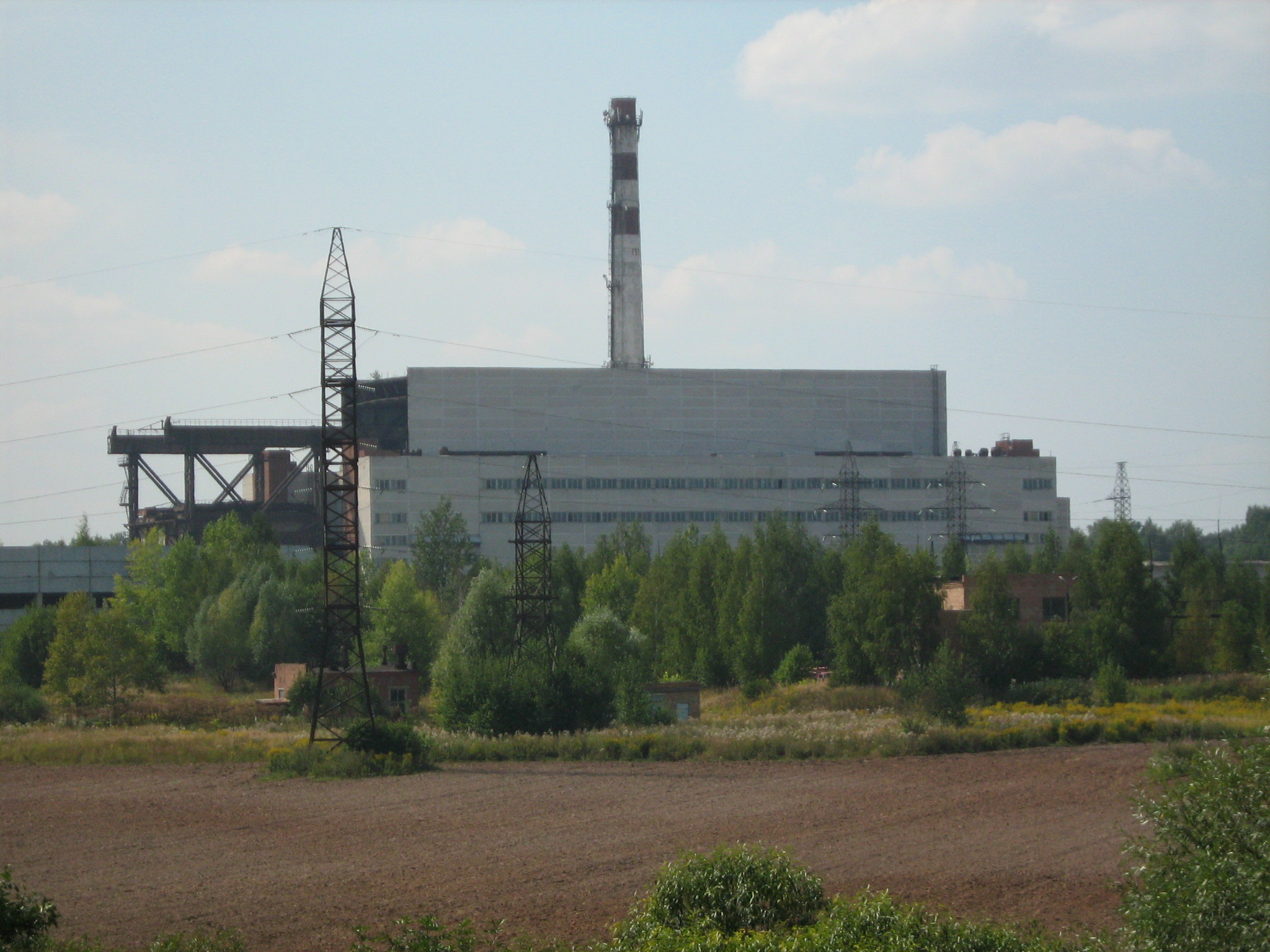 Unfinished Gorky Nuclear Heating Plant (near Fedyakovo in Kstovsky district)